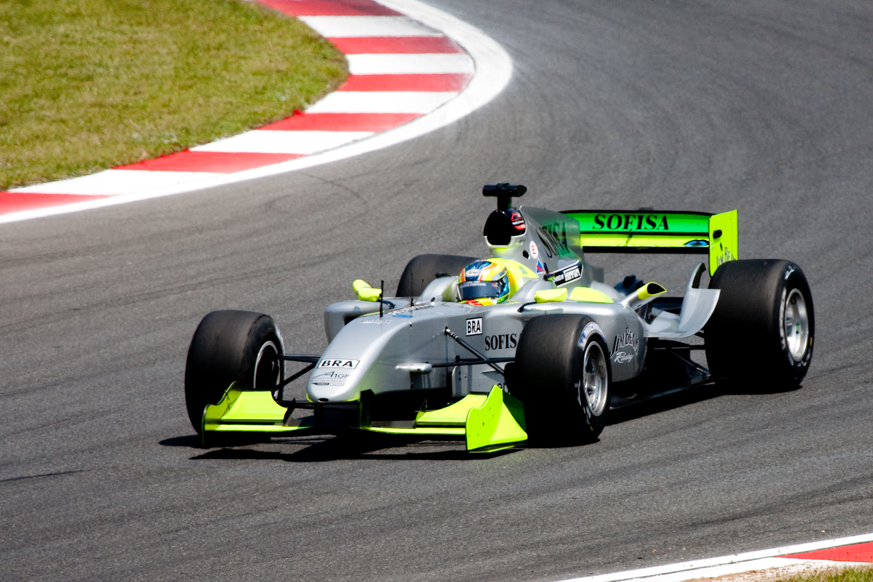 Team Brazil @ A1 Grand Prix Kyalami South Africa 2009